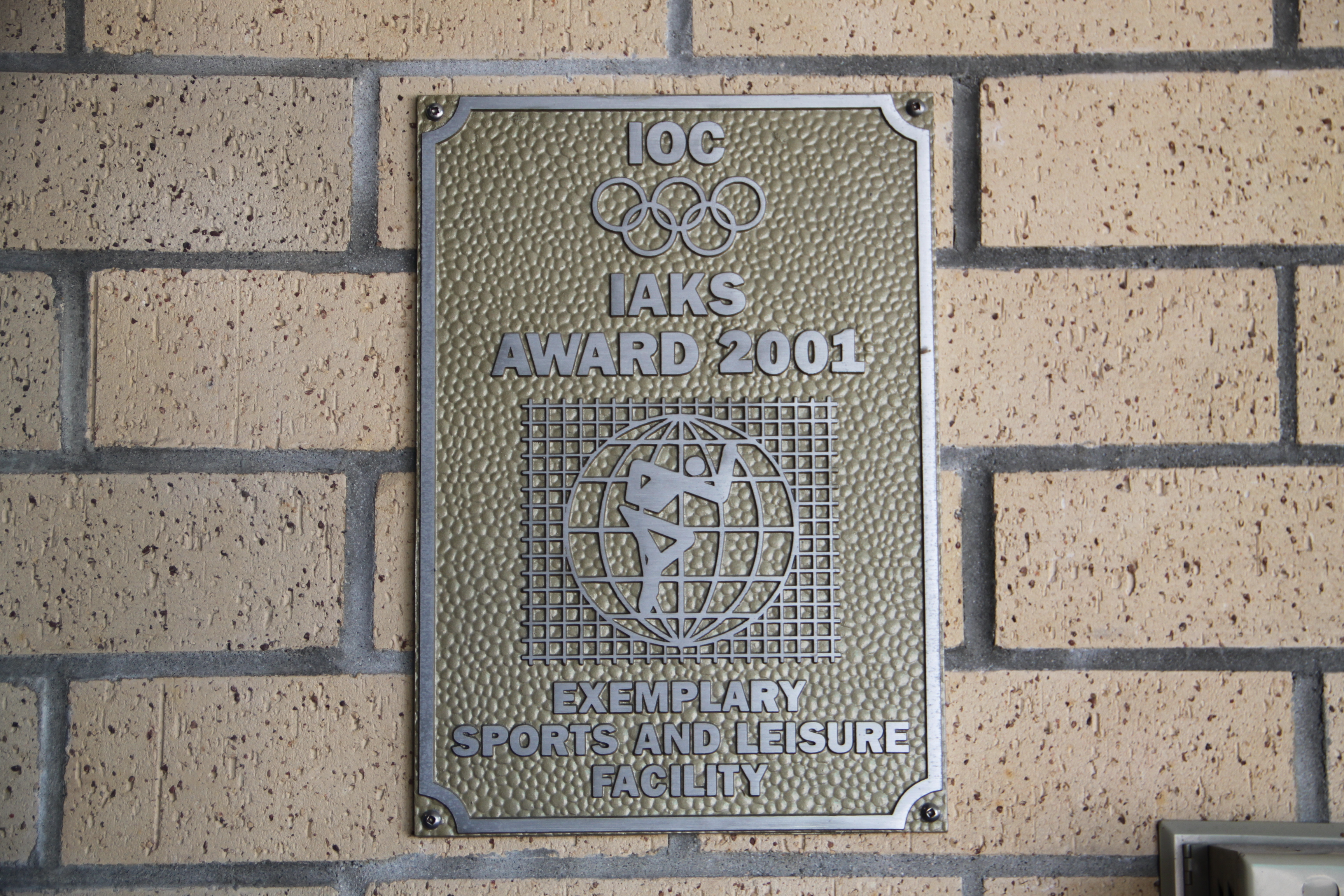 Commemorative plaque of Eileen Dailly swimming pool for being awarded as an exemplary facility by IOC in 2001中文（台灣）: Eileen Dailly 游泳池於 2001 年獲得國際奧運會頒獎的紀念牌匾